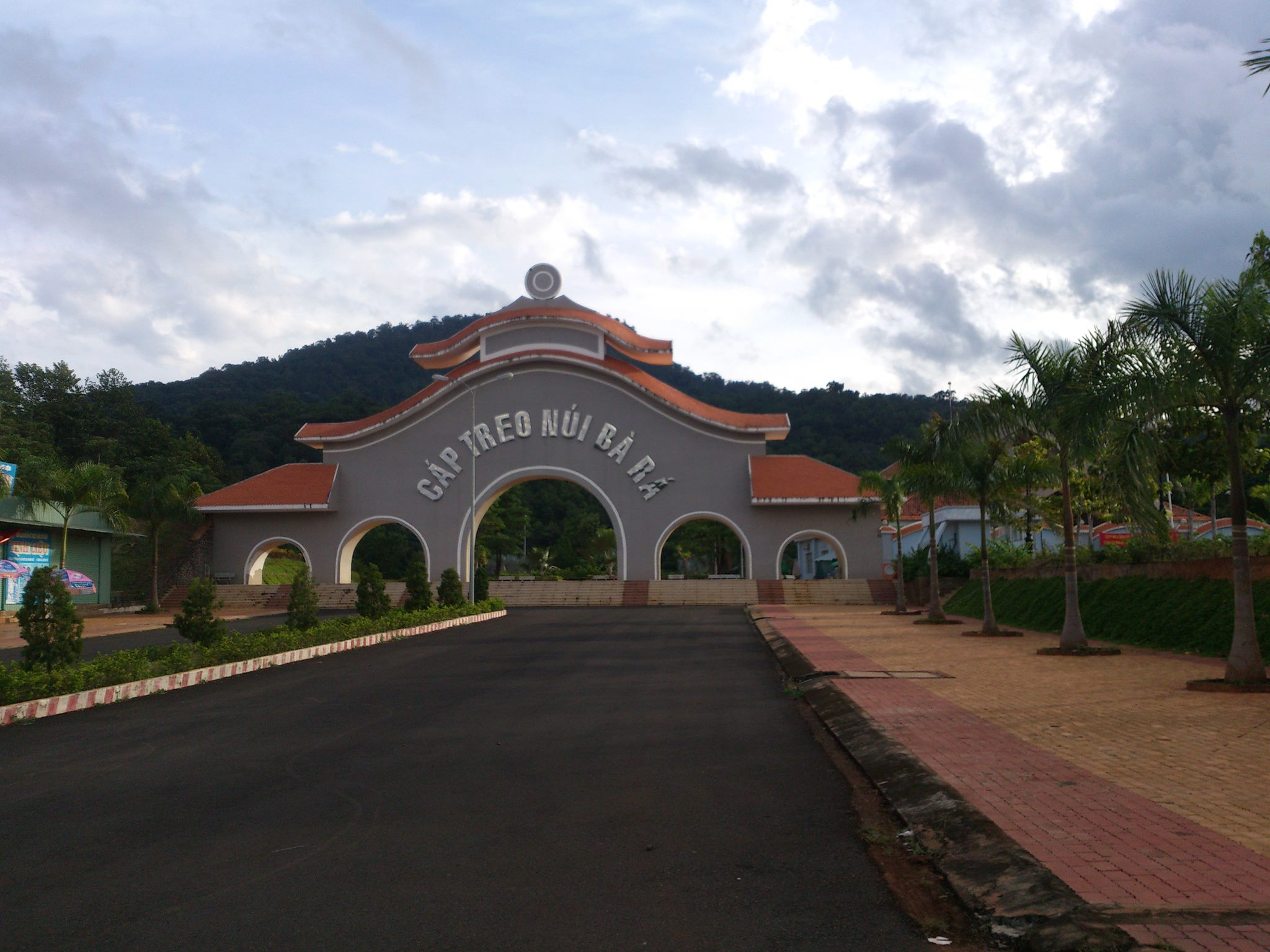 Cáp treo Bà Rá